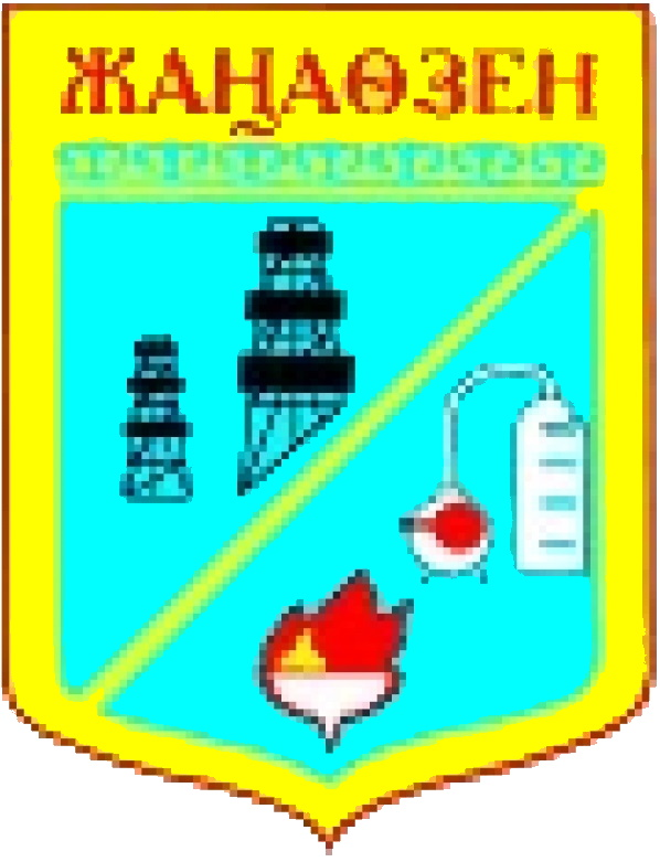 The new arms of the town of Zhanaozen authorized at extraordinary session of city council of representatives on June, 5, 2013.